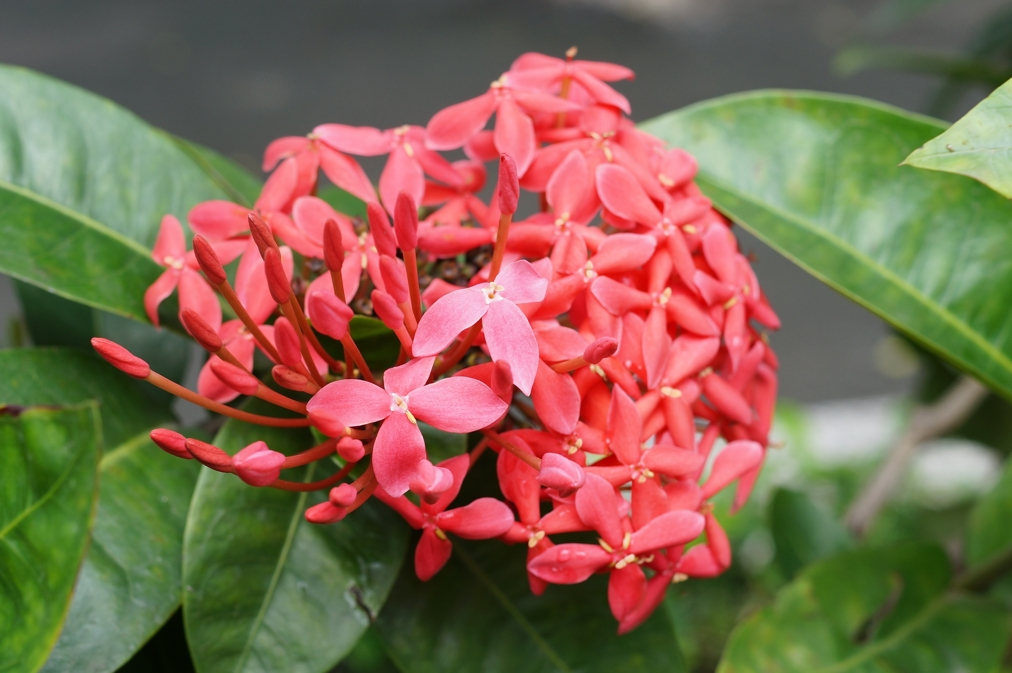 Jungle Geranium